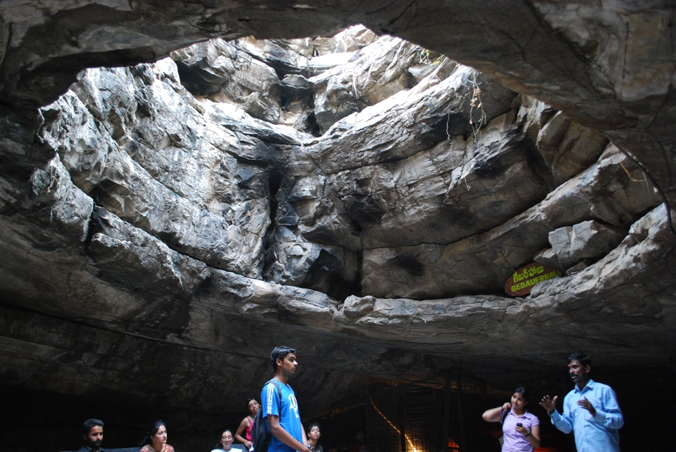 Belum Caves.